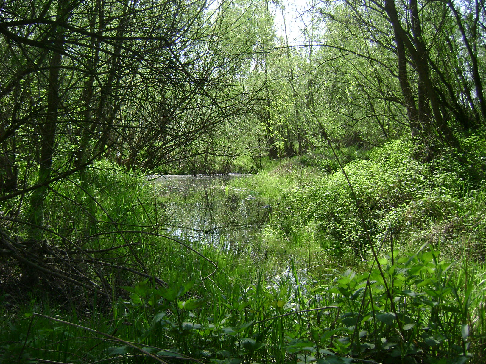 Poland. Gmina Konstancin-Jeziorna. Vistula